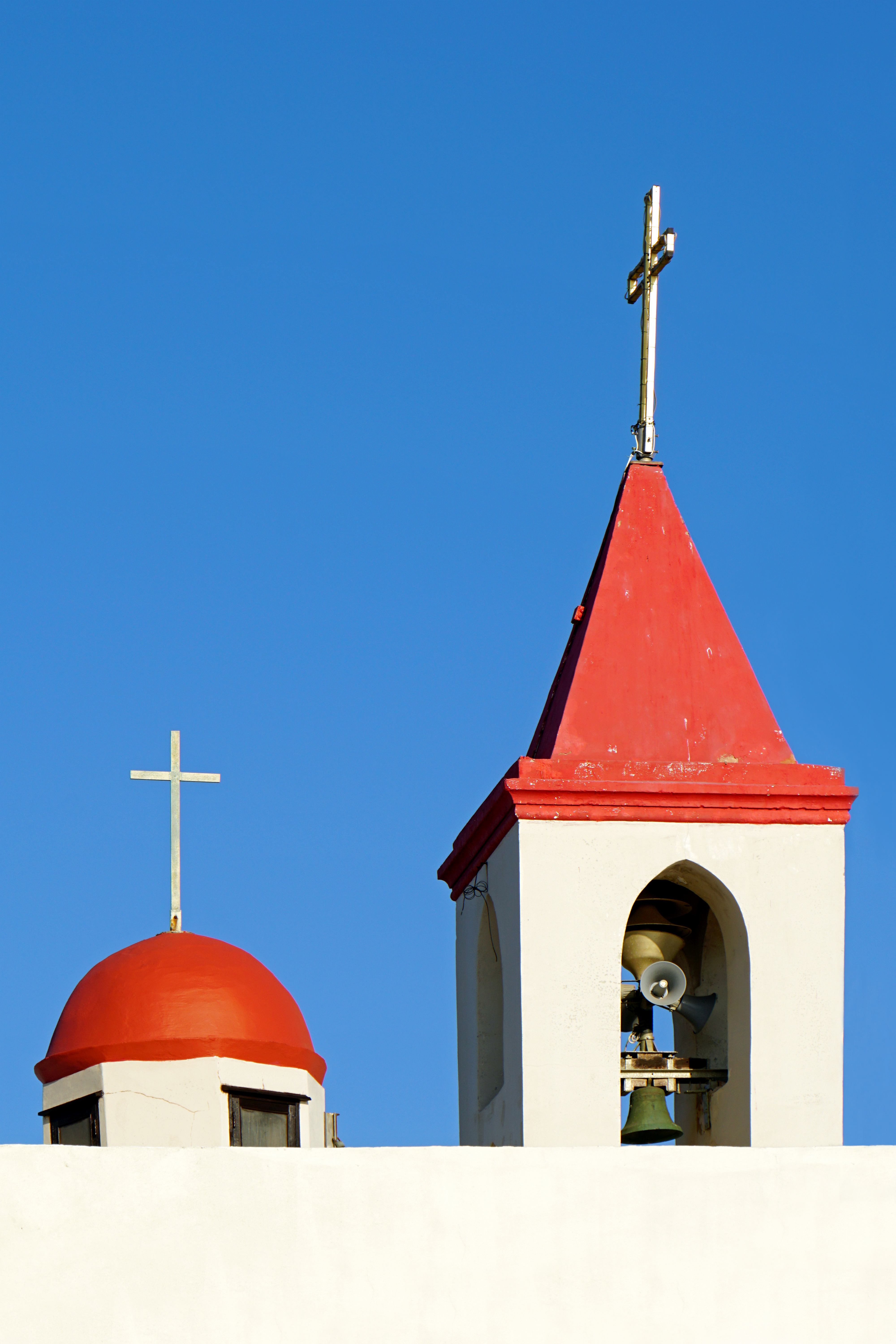 Saint John's Church, which currently stands next to Acre's lighthouse, belongs to the Franciscans. It is unclear when the church was built, the year 1737 was found engraved in the northern wall of the building. The church was renovated in 1947 and now serves as the only church of Acre's Latin-Catholic community.